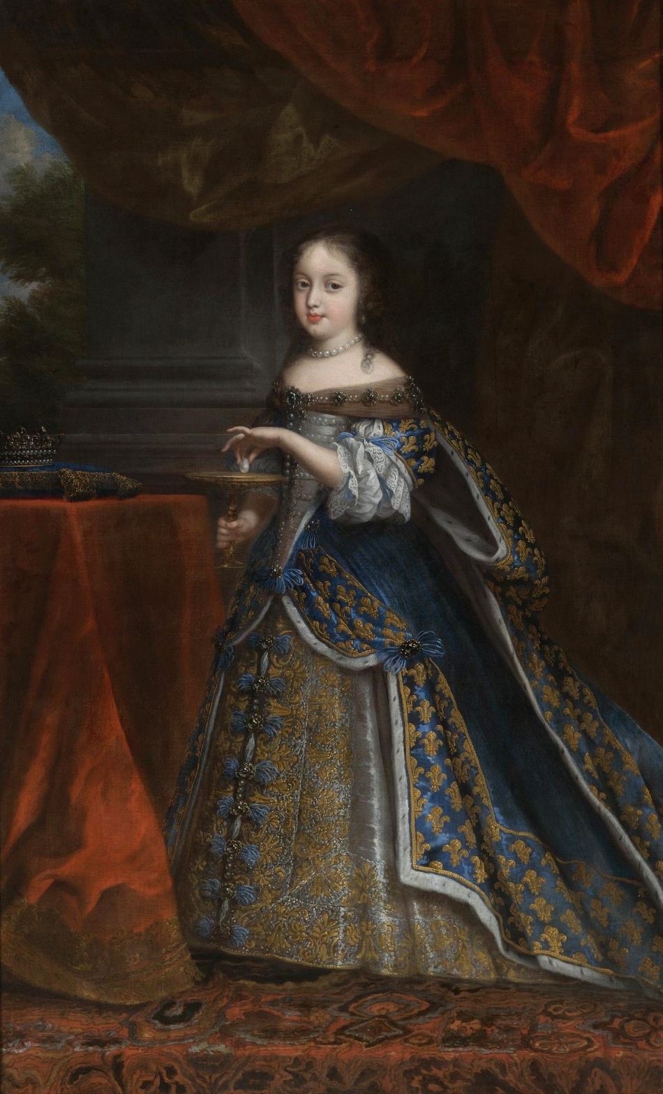 Portrait of a young royal lady, possibly Henrietta of England (1644-1670) before her marriage to Philippe of France, Duke of Orléans